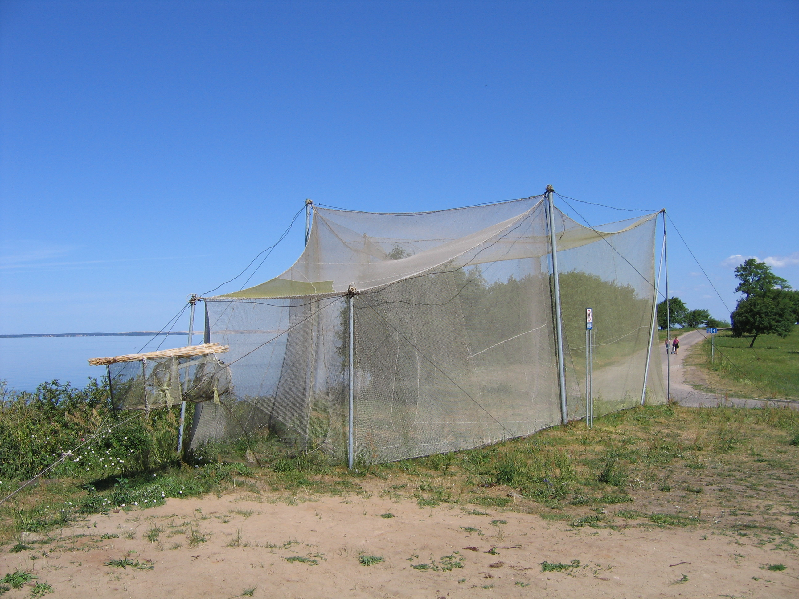 Paukščių gaudymo tinklai Ventės rage.